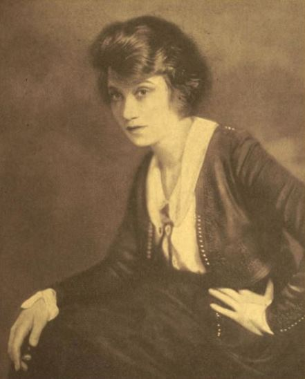 Fay Bainter, on page 351 of the November Munsey's Magazine.